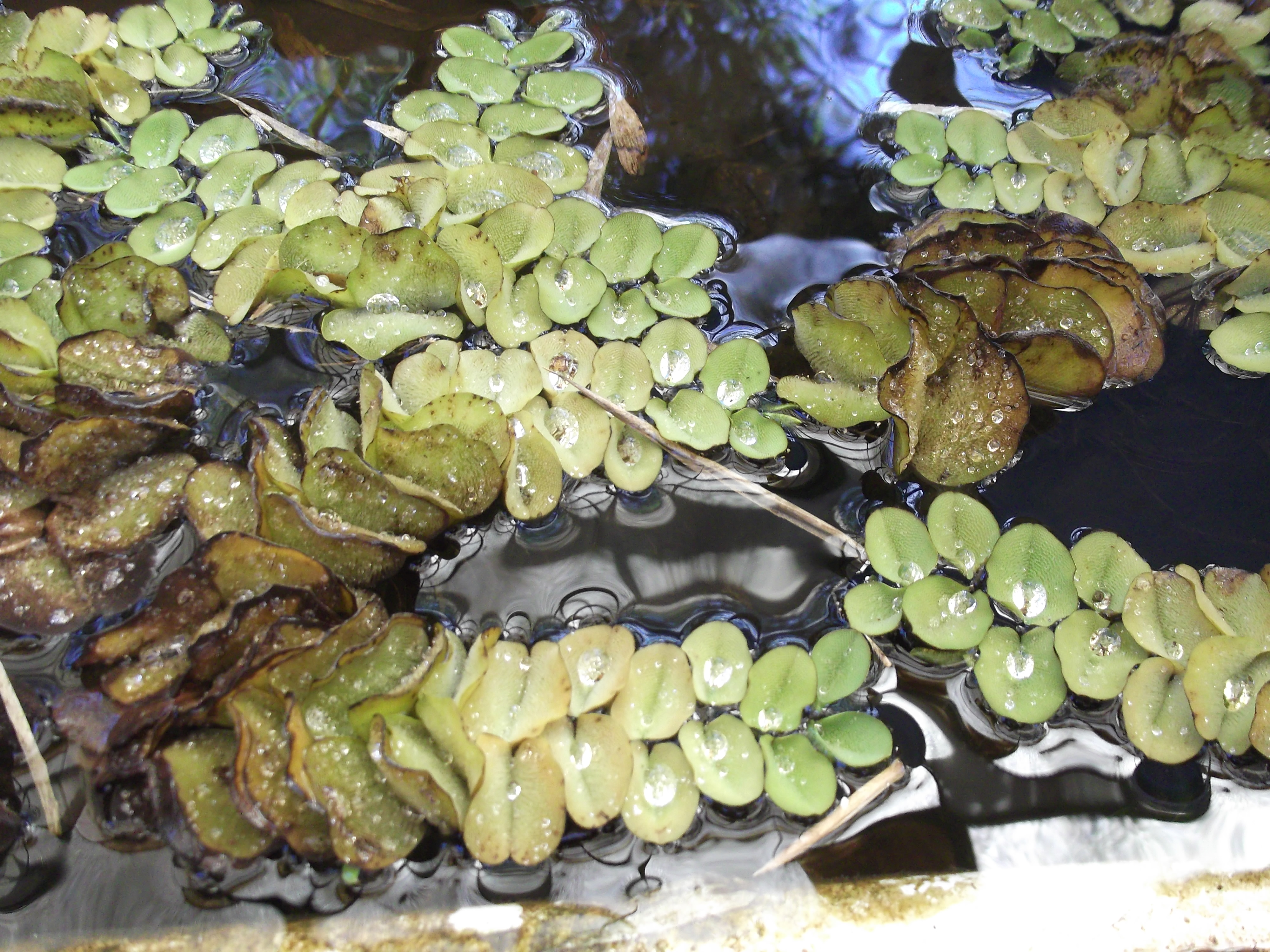 Floating fern,aquatic fern-ally,floatin on water,pale yellowish green leaves.